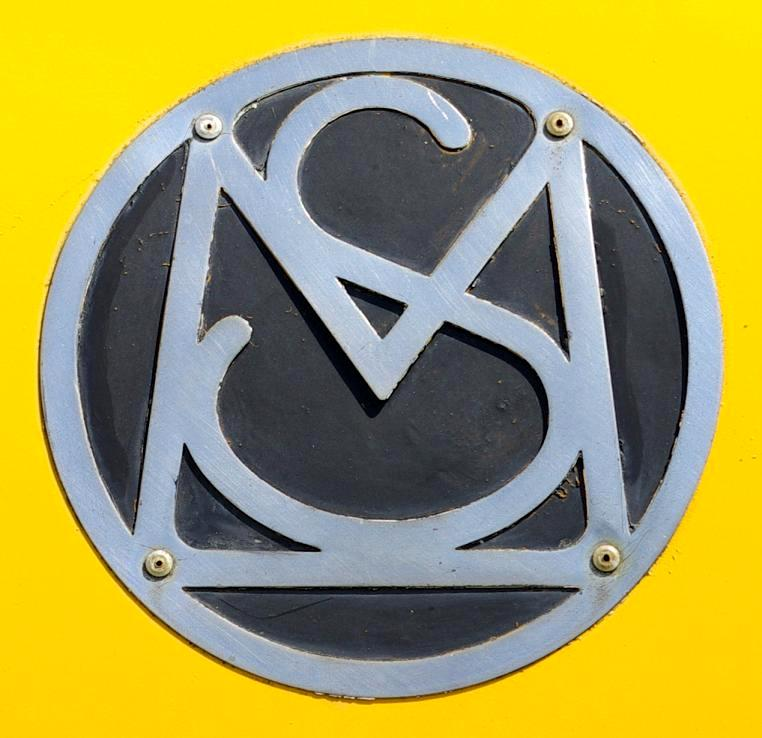 Logo of the french aircraft manufacturer Morane-Saulnier.